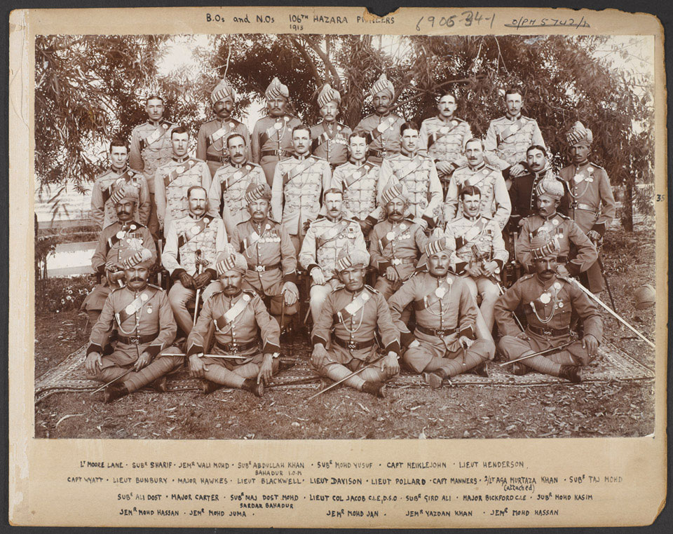 This photo was taken 1913, somewhere in Quetta, British India.